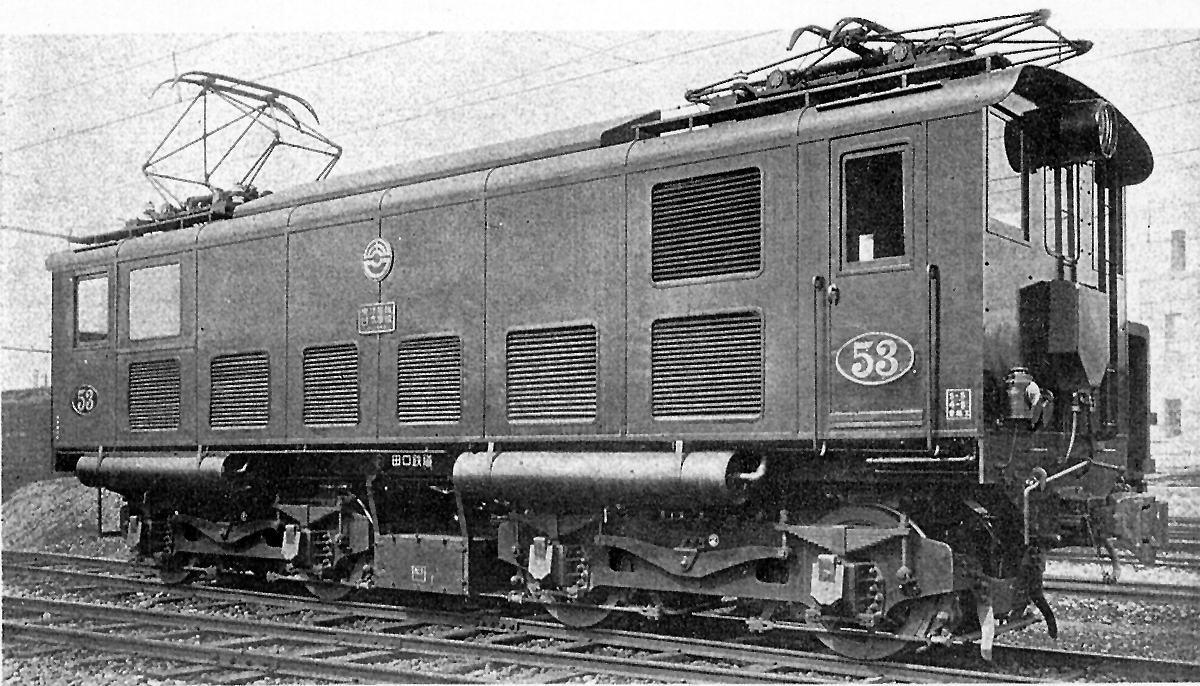 Taguchi Railway Type DEKI 53 Electric Locomotive No.53